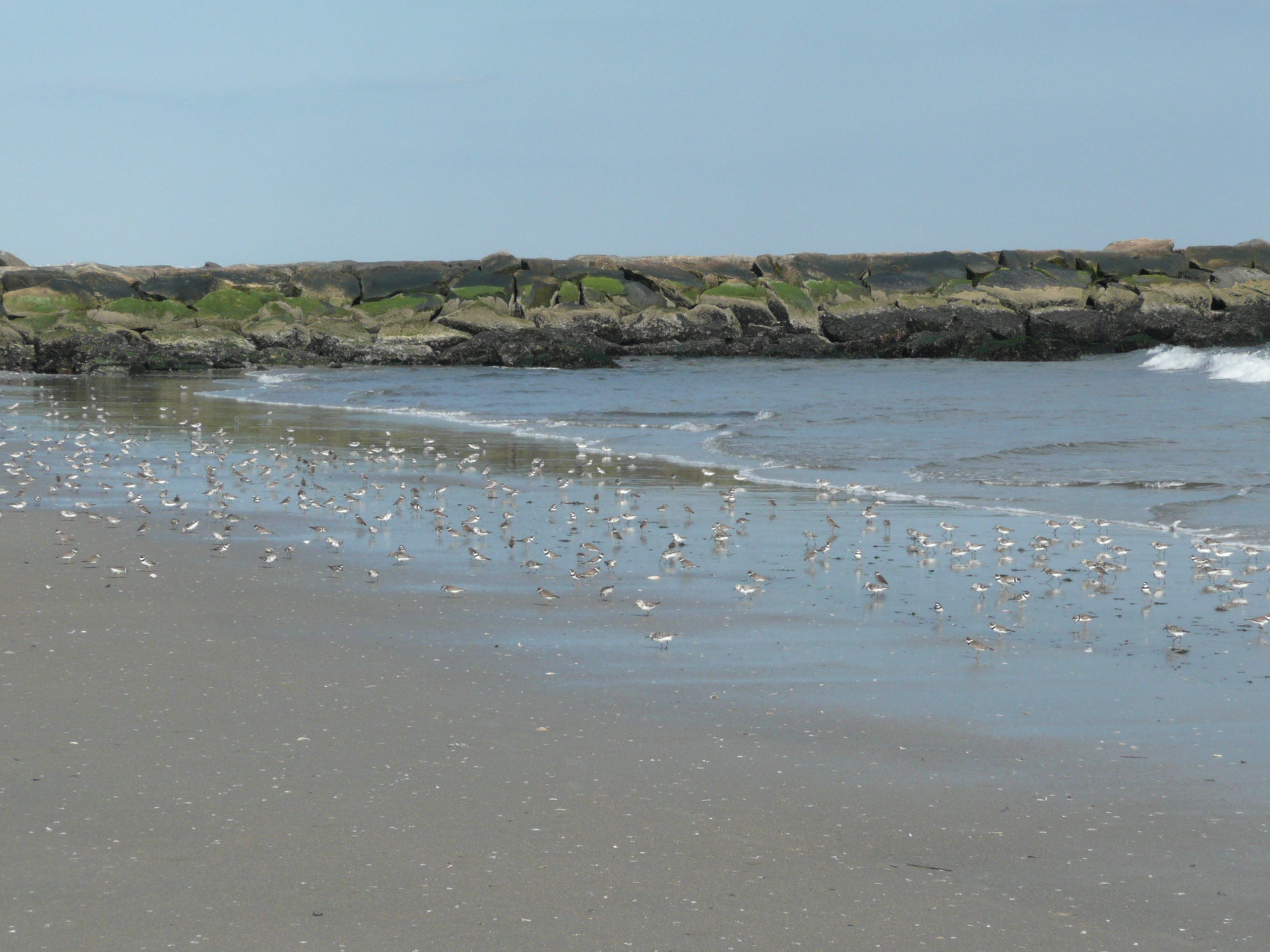 Rockaway Beach - Beach that inspired Ramones song Rockaway Beach - near the Queens, New York.